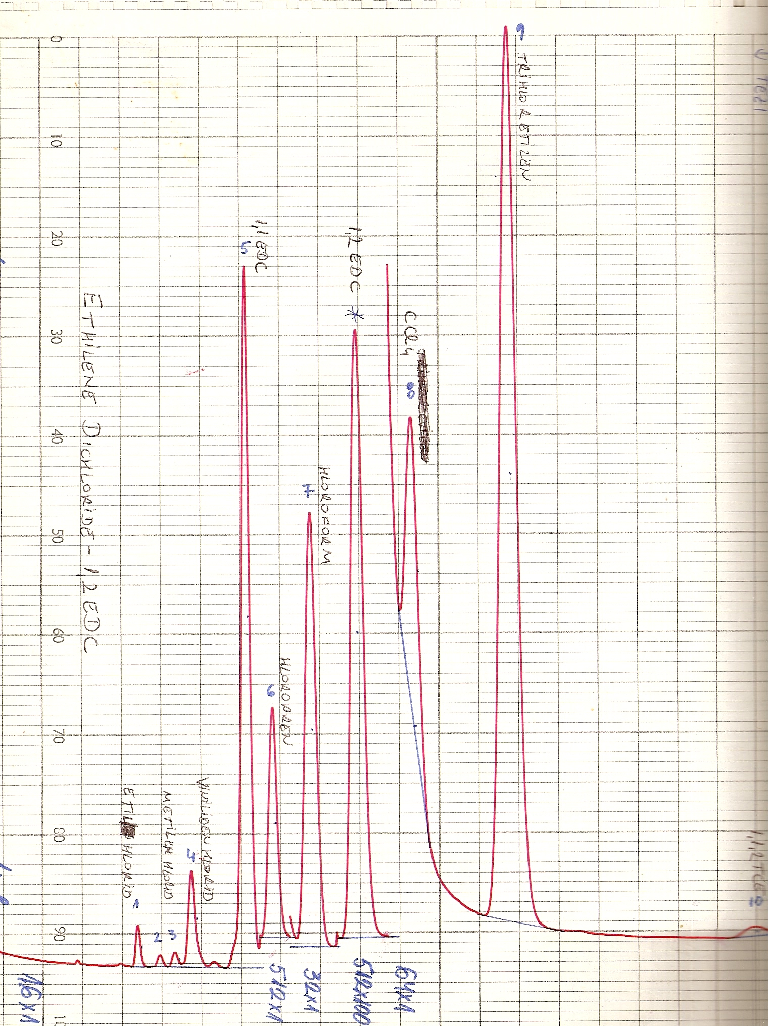 GC Hromatogram of Industrial 1,2 EDC Work-Sheet